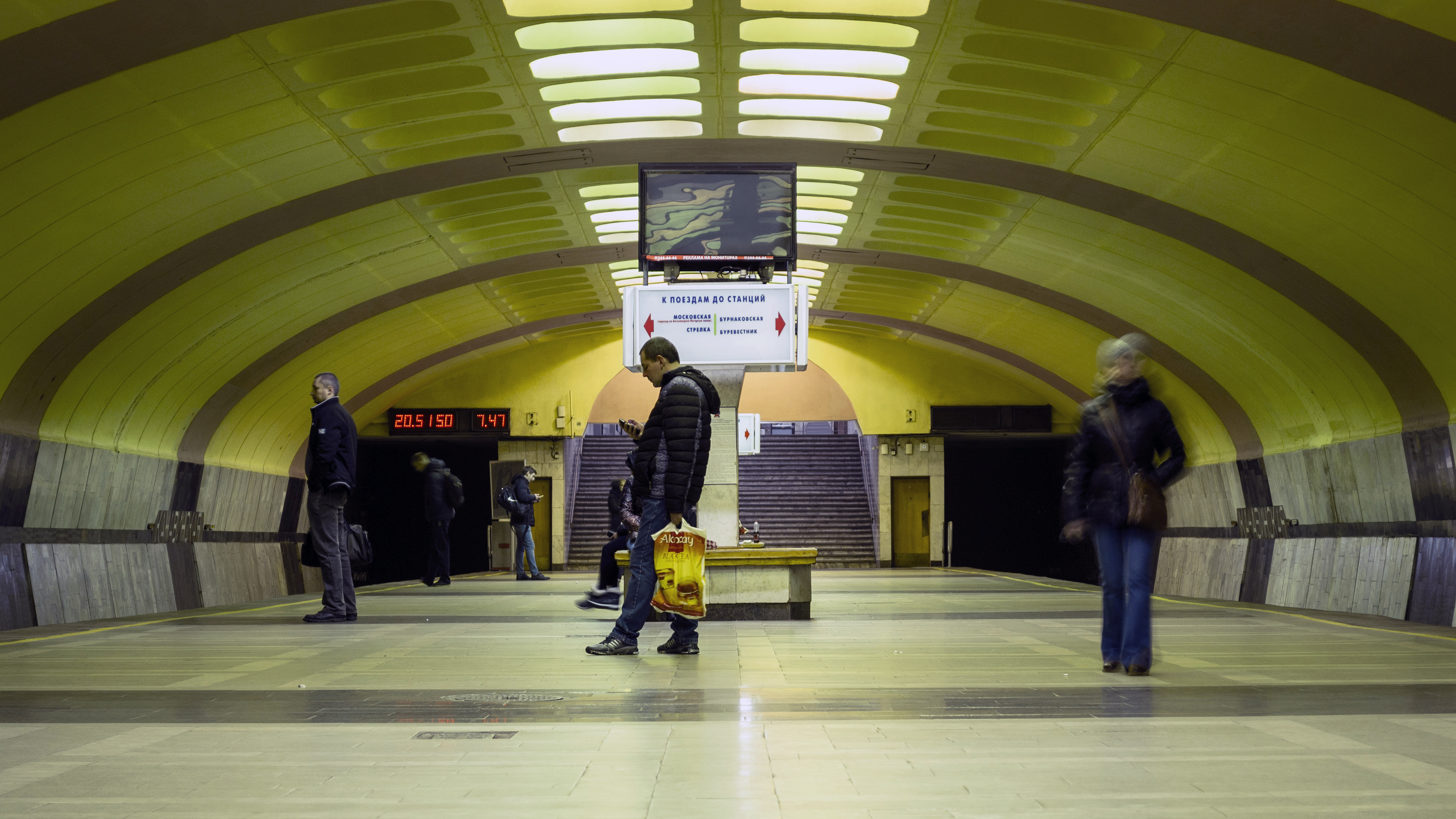 Kanavinskaya metro station in Nizhny Novgorod, Russia.